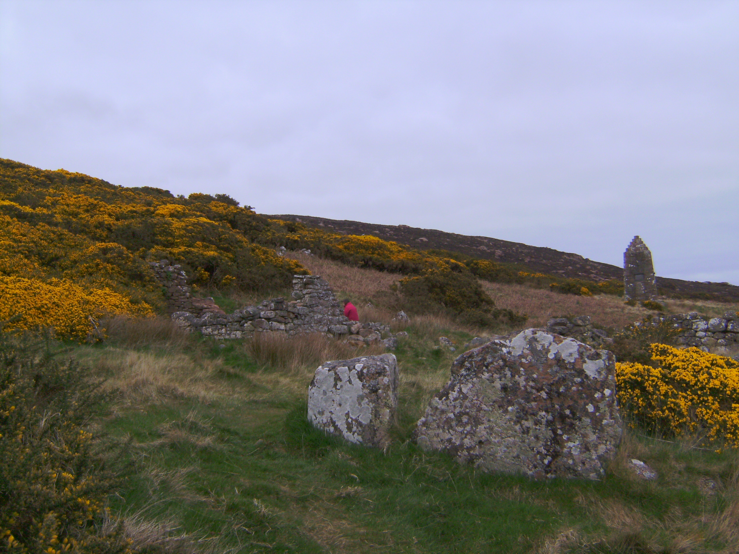 Photo of Badbea clearance village and 1911 monument